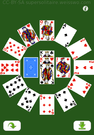 This shows the solitaire game "The Clock" in progress. Foundations build in alternating color, but each layer must have the same suit. The layers can be seen on the center cascade, which may also be built as stack. Screenshot from my pet project SuperSolitaire for the iPhone.